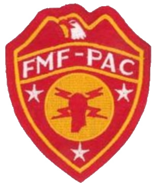 Emblem of Fleet Marine Force, Pacific insignified during World War II.